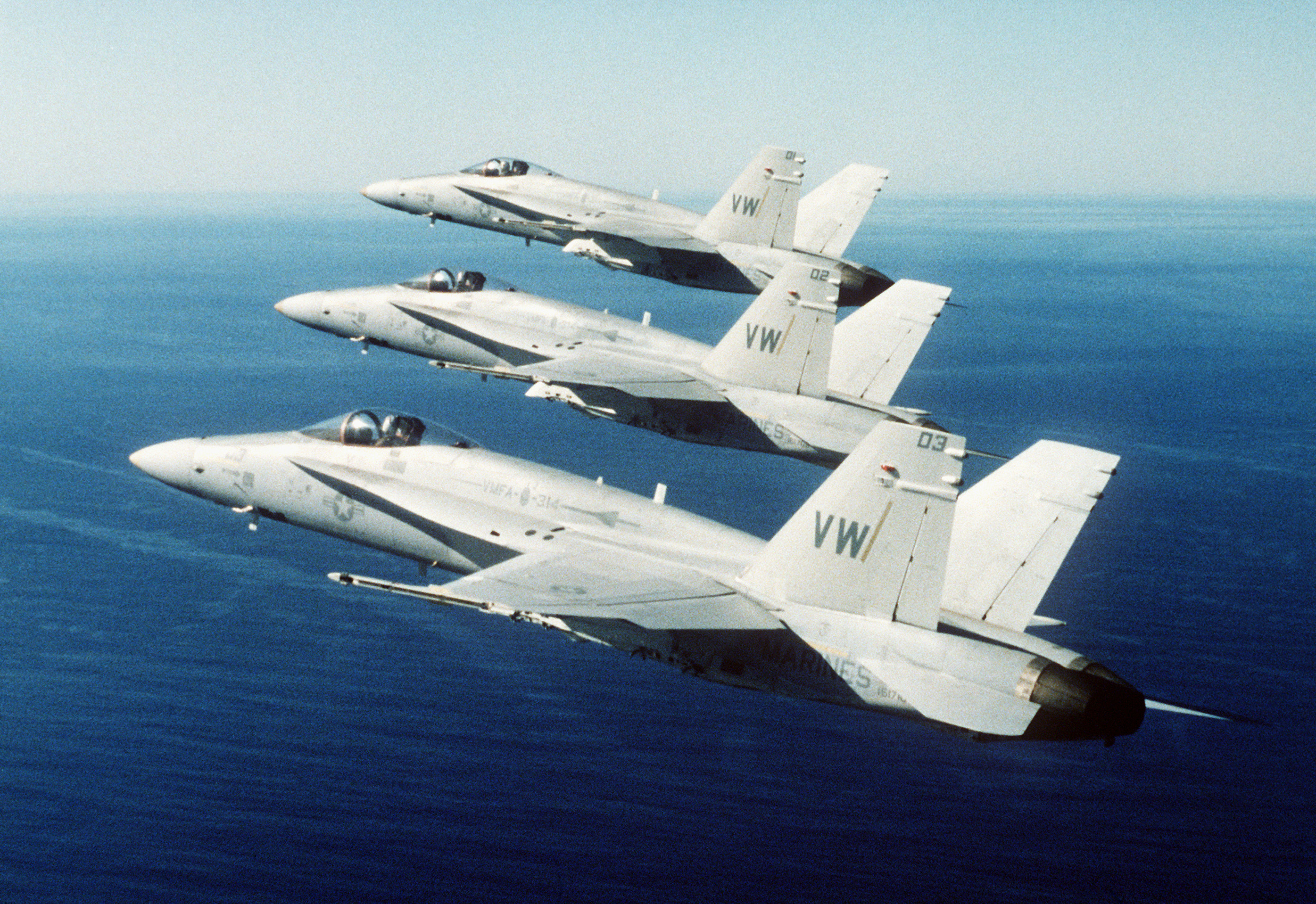 An air-to-air left side view of three F/A-18A Hornet strike fighter aircraft in formation. The Hornets are assigned to Marine Fighter/Attack Squadron 314 (VMFA-314), homeported at a Marine Corps Air Station, El Toro, Calif. From the DOD image search website. Picture comes up if you search for VMFA-314 ID: DNST8507321 Service Depicted: Marines Command Shown: N0116 Camera Operator: MCDONNELL DOUGLAS Date Shot: 1 Apr 1984